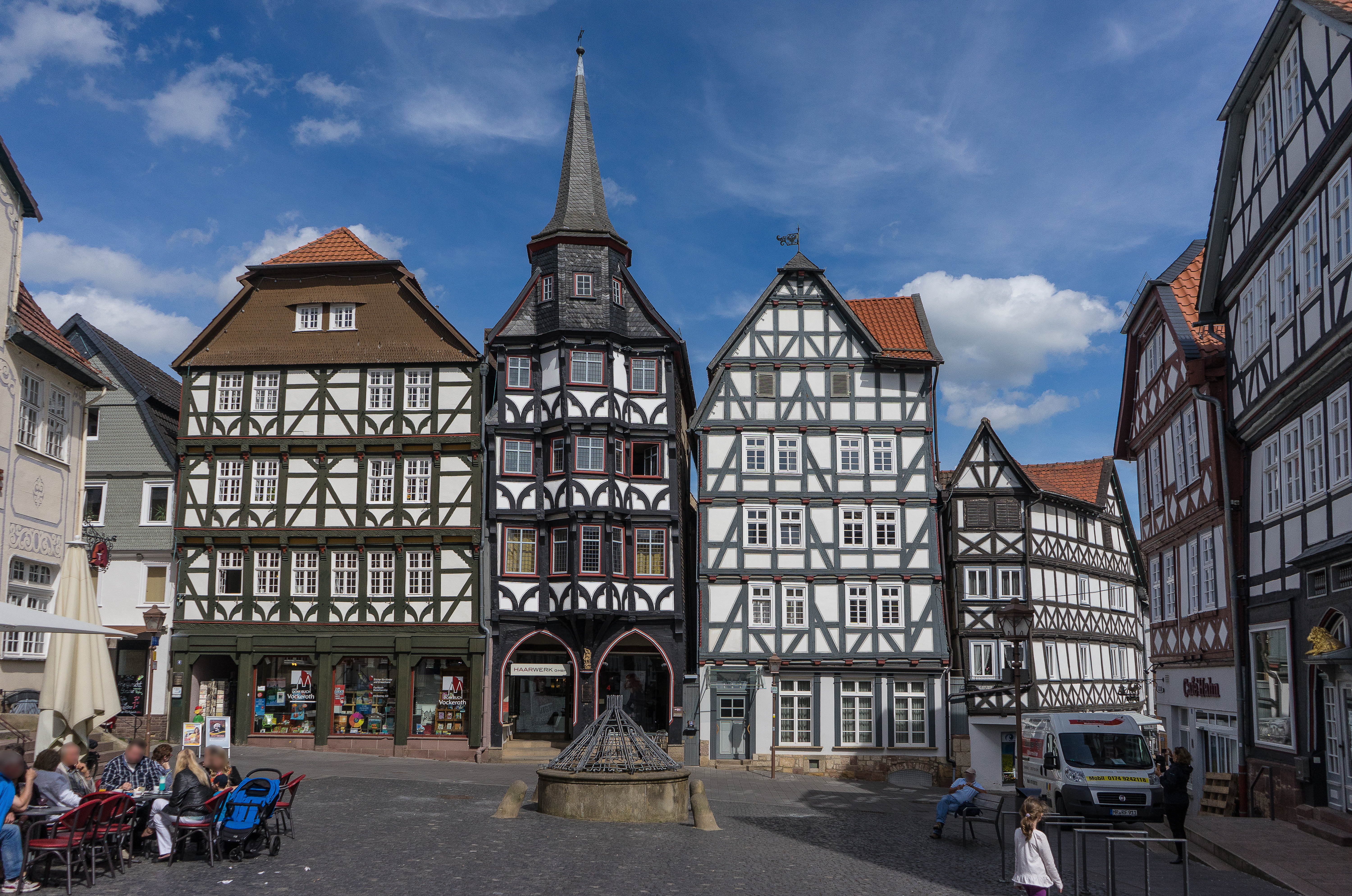 Fritzlar Marketplace